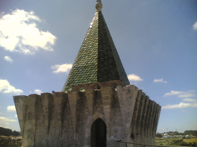 Castle of Porto de Mós, in Portugal (detail).